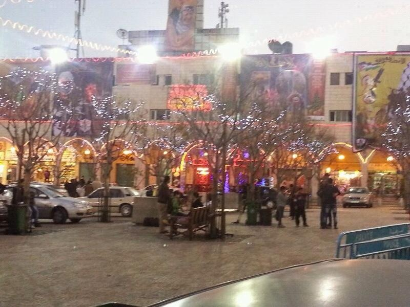 Christmas Tree, Bethlehem yard